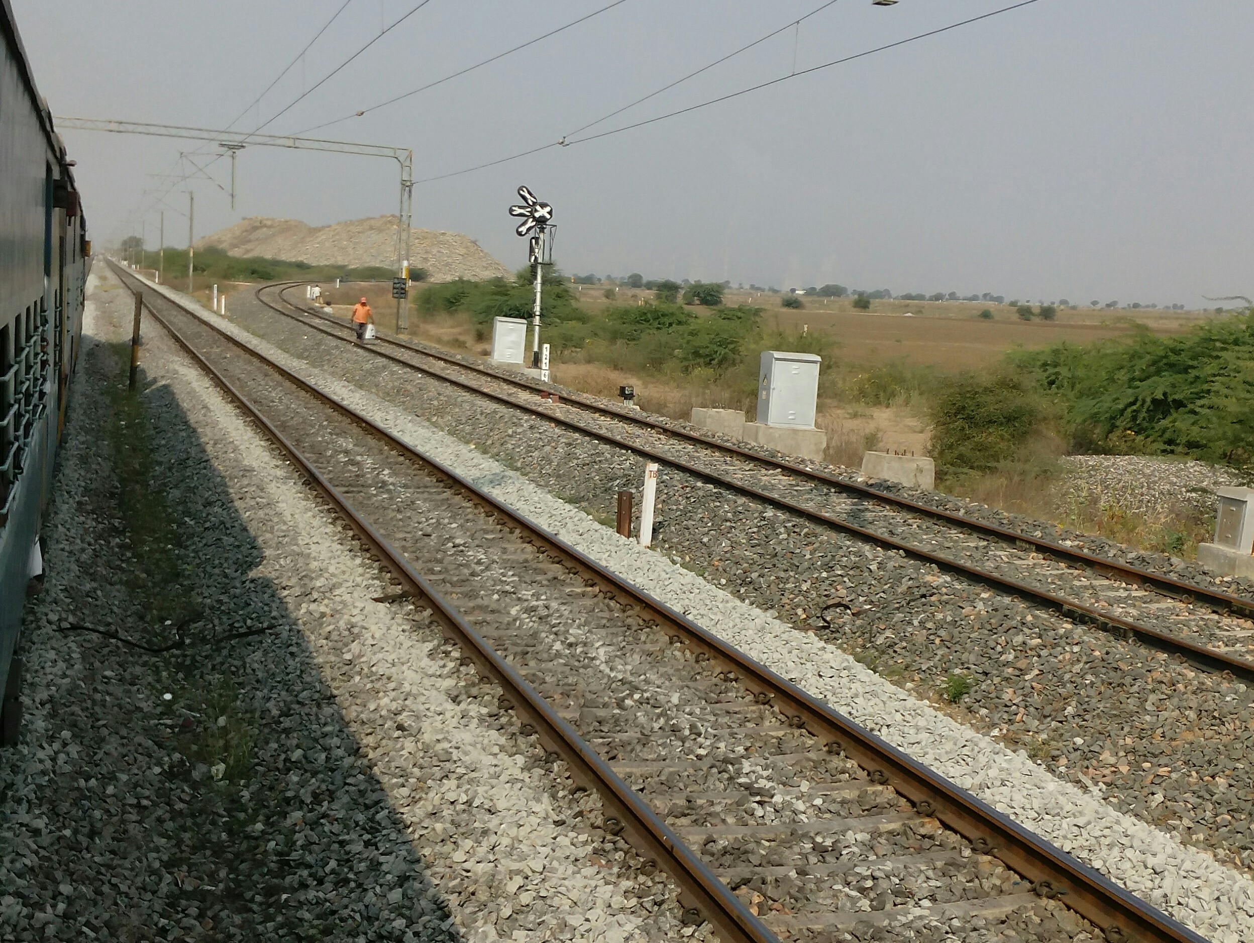 Track Bifurcation towards Nandyal from Yerraguntla